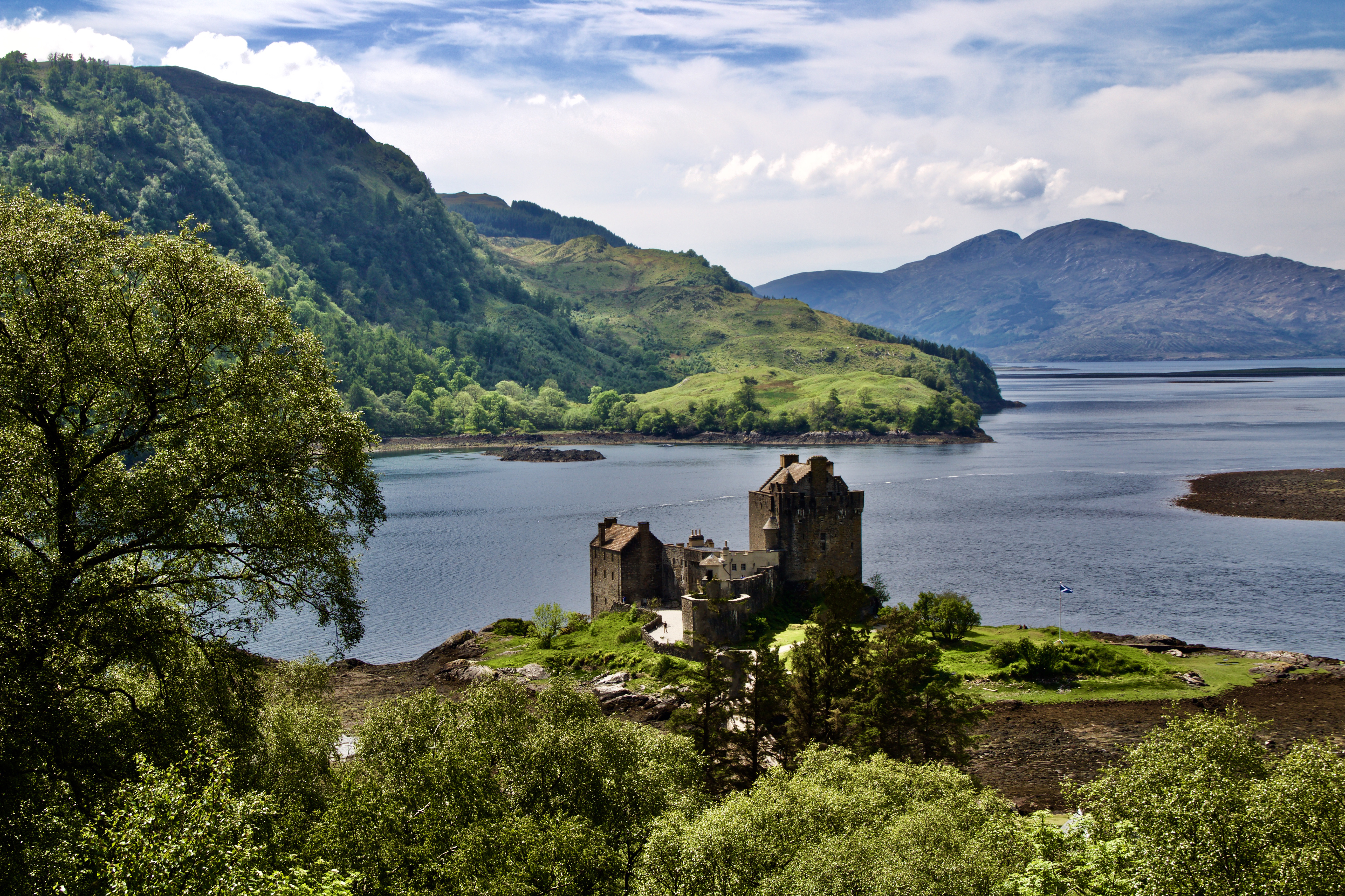 Eilean Donan Castle Wikidata has entry Q20816698 with data related to this item.